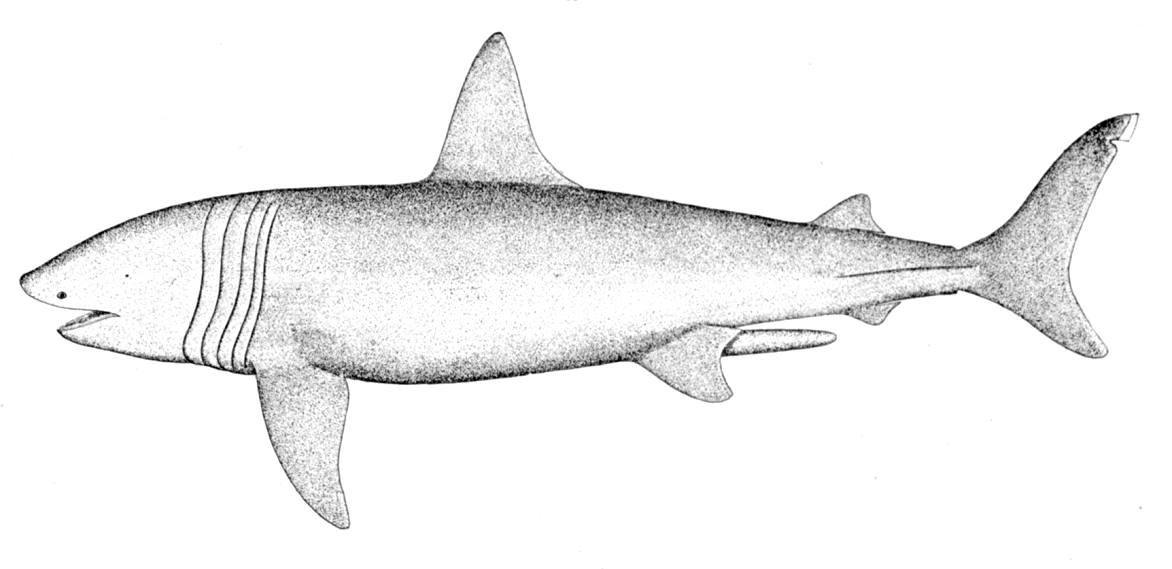 Basking shark (Cetorhinus maximus)